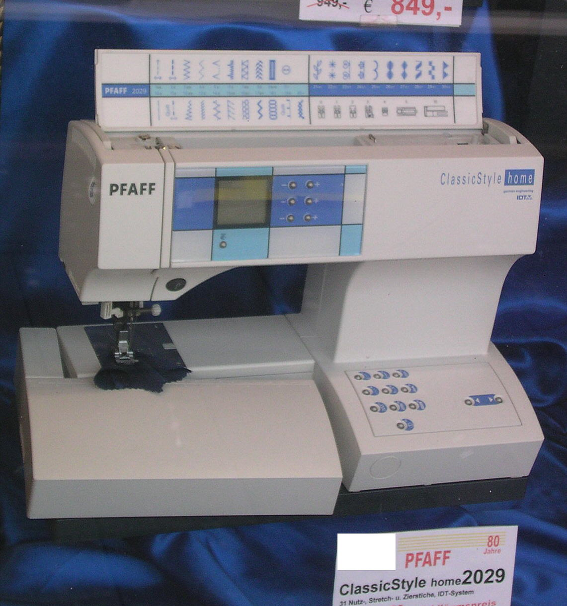 Pfaff-sewing machine "ClassicStyle home 2029"